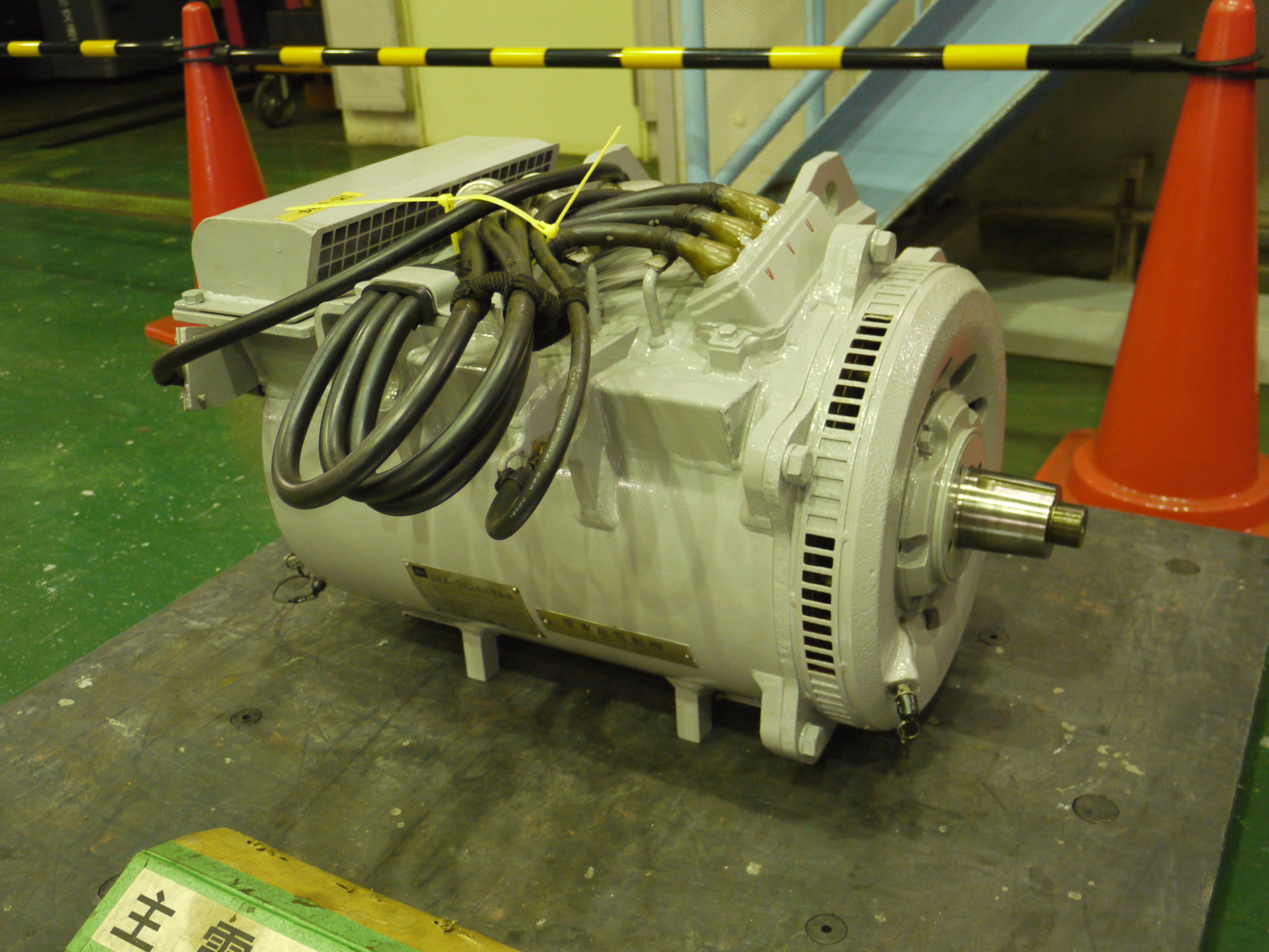 SEA-362 traction motor for Kyoto subway 50 series